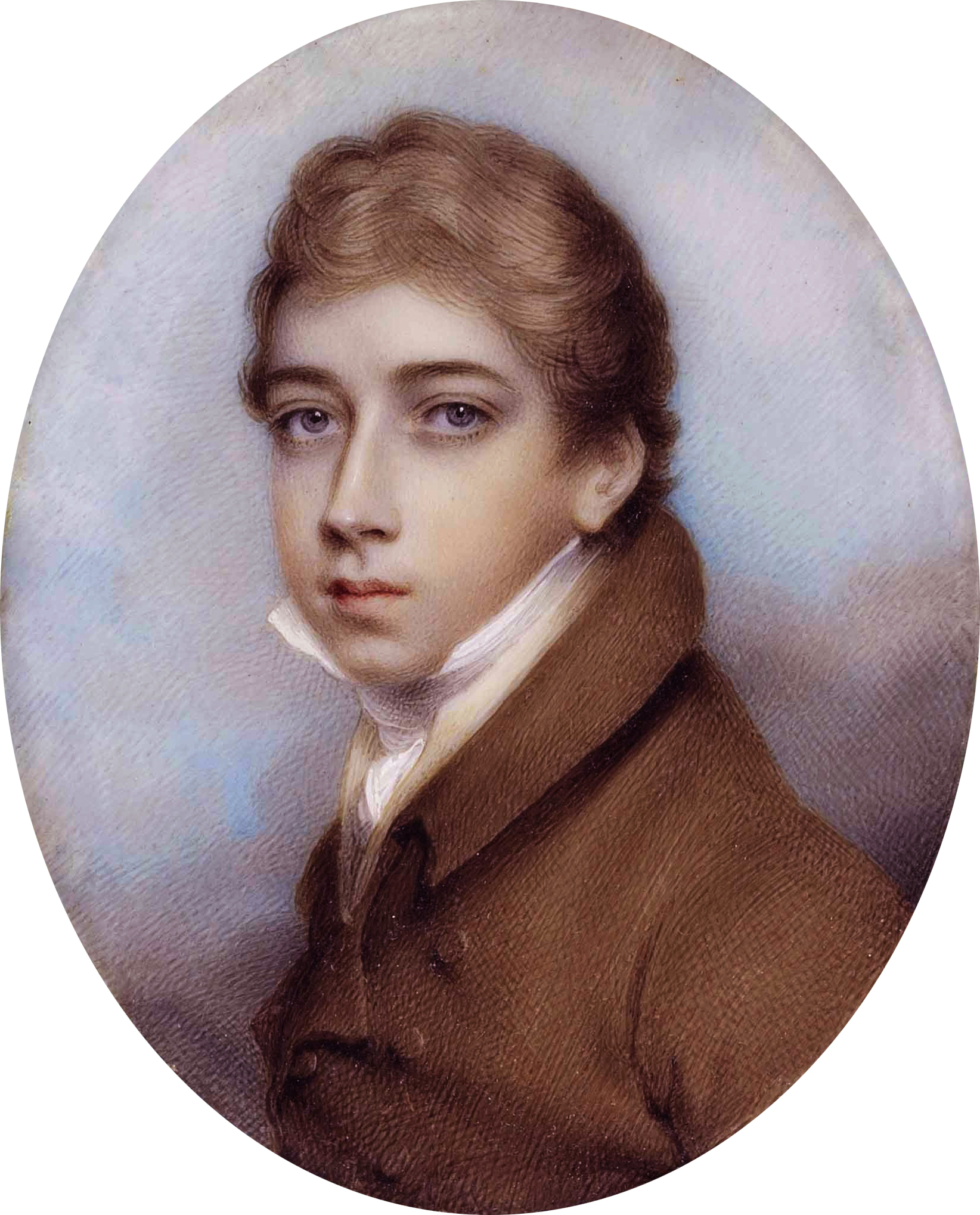 Charles Kemeys Kemeys Tynte (1778-1837) on ivory oval 8.3 cm